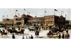 1887 Piedmont Exposition Main Building This engraving shows the 1887 Piedmont Exposition's main building. Located in Atlanta's Piedmont Park, the structure was 570 feet long, 126 feet wide, and two stories high. The Exposition opened on October 10 to nearly 20,000 visitors.